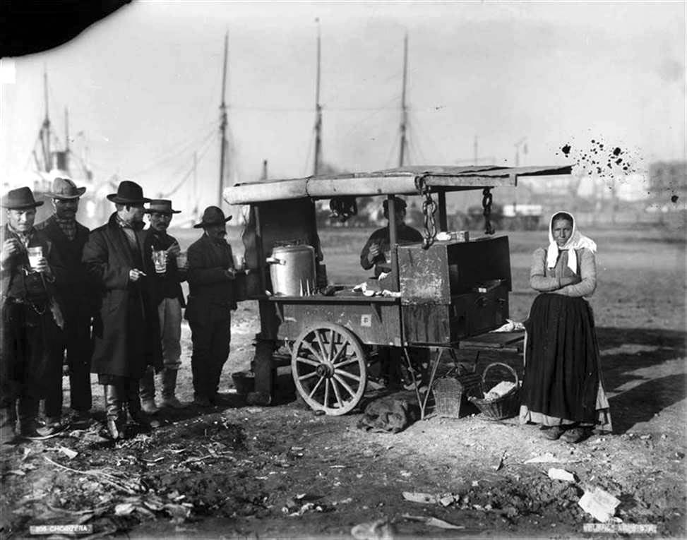 "Choricera", a food cart that selling chorizos in Buenos Aires, Argentina.